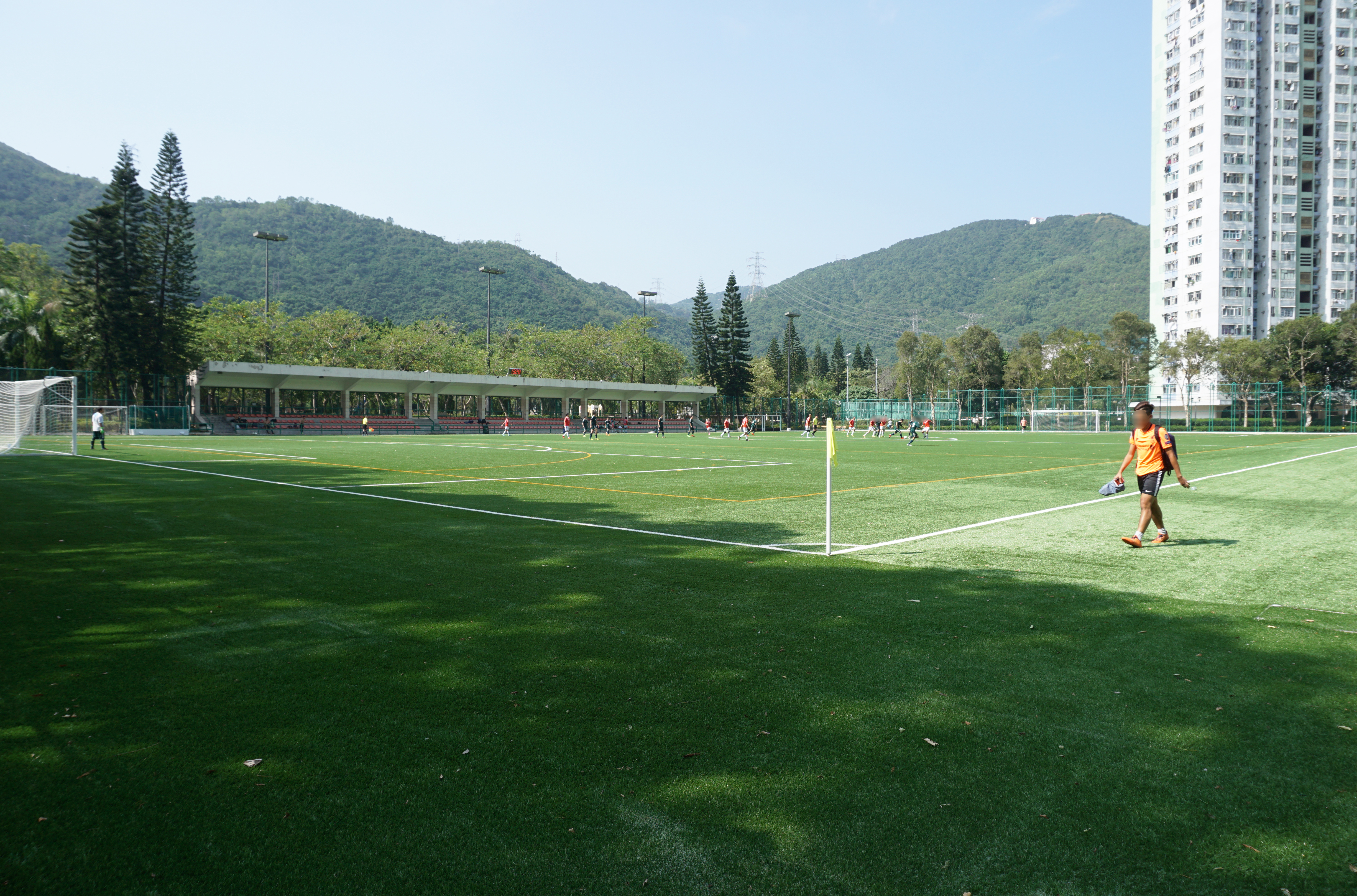 Po Tsui Park in Po Lam, Hong Kong.